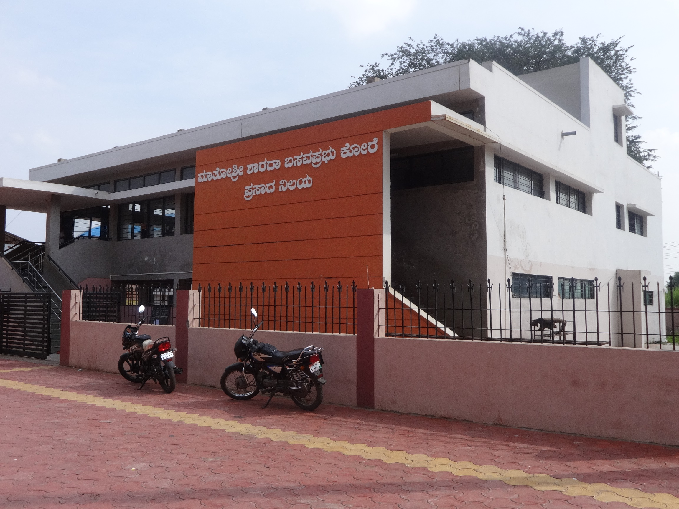 Prasad